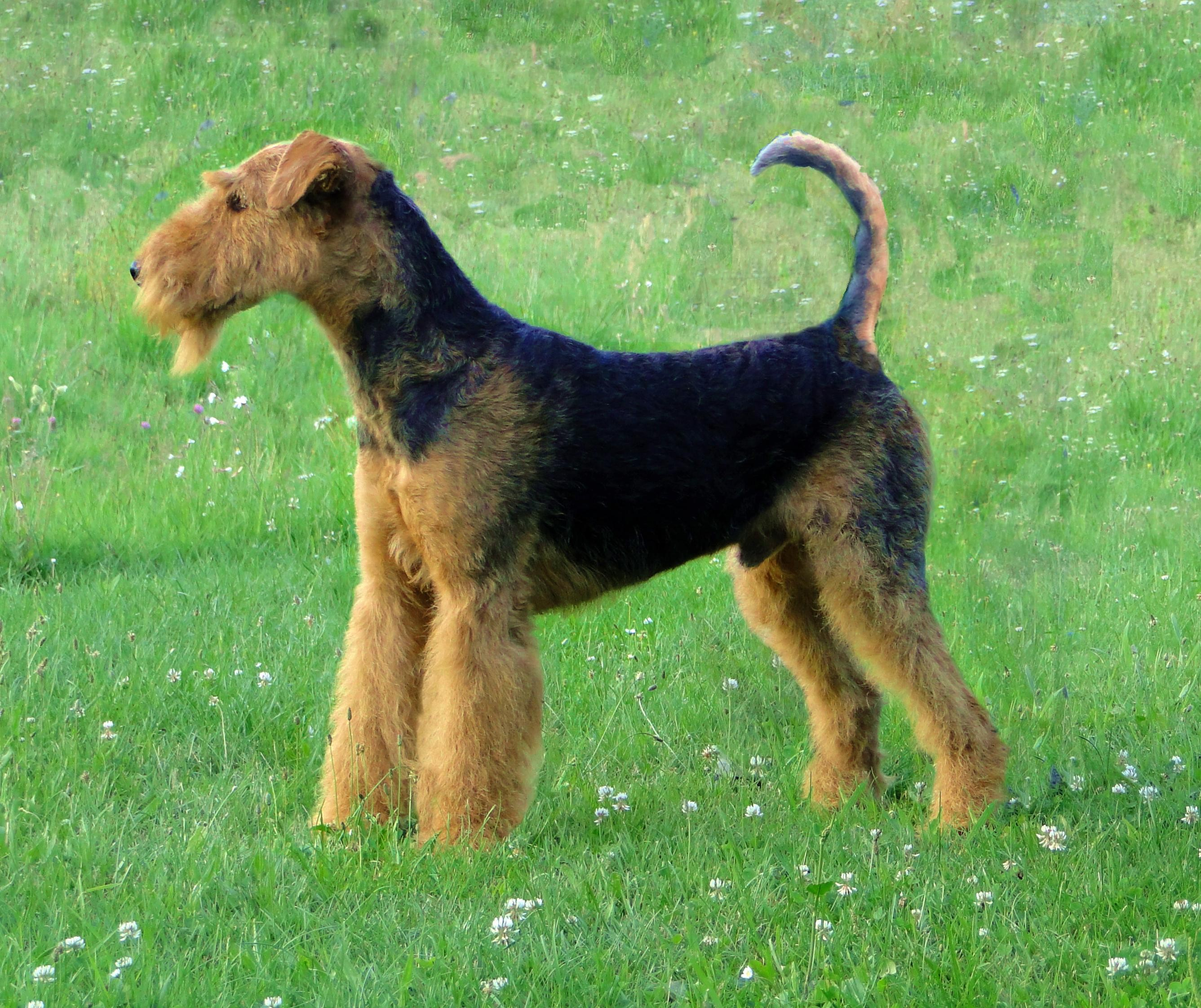 Airedale Terrier 14 months old, undocked and trimmed normative.